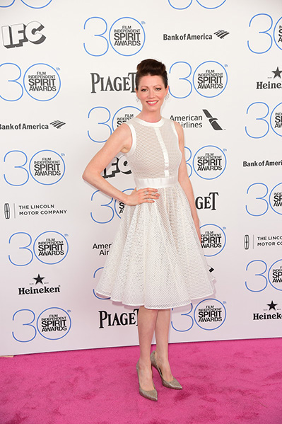 Jessica Oyelowo